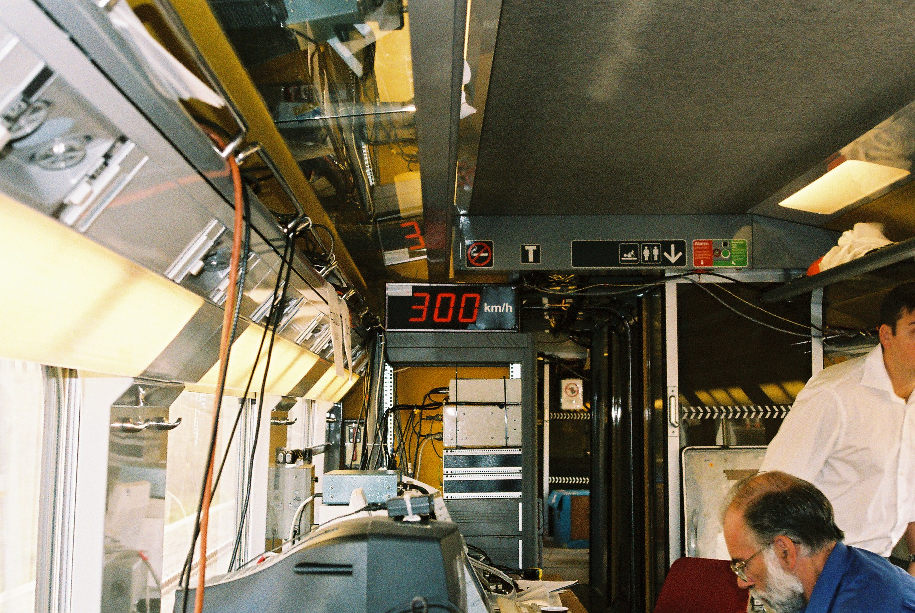 300KM/h 186mph in Britain!